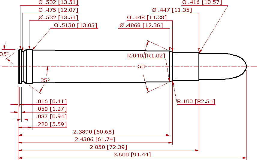 SAAMI compliant schematic of the .416 Remington Magnum cartridge